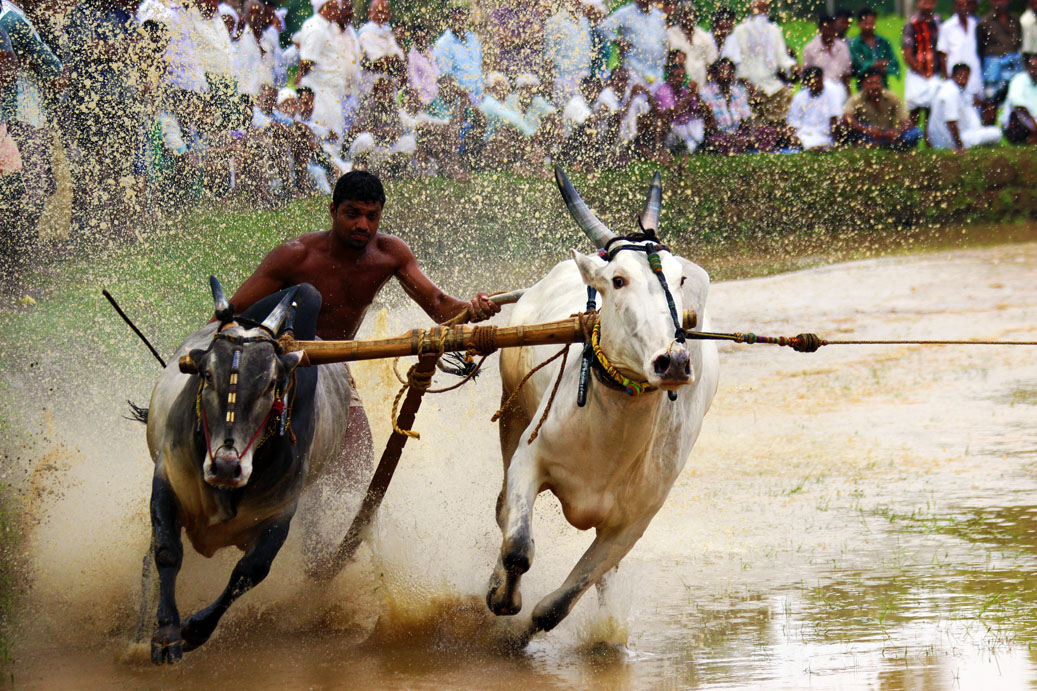 A scene from Bull Surfing competition in Kerala